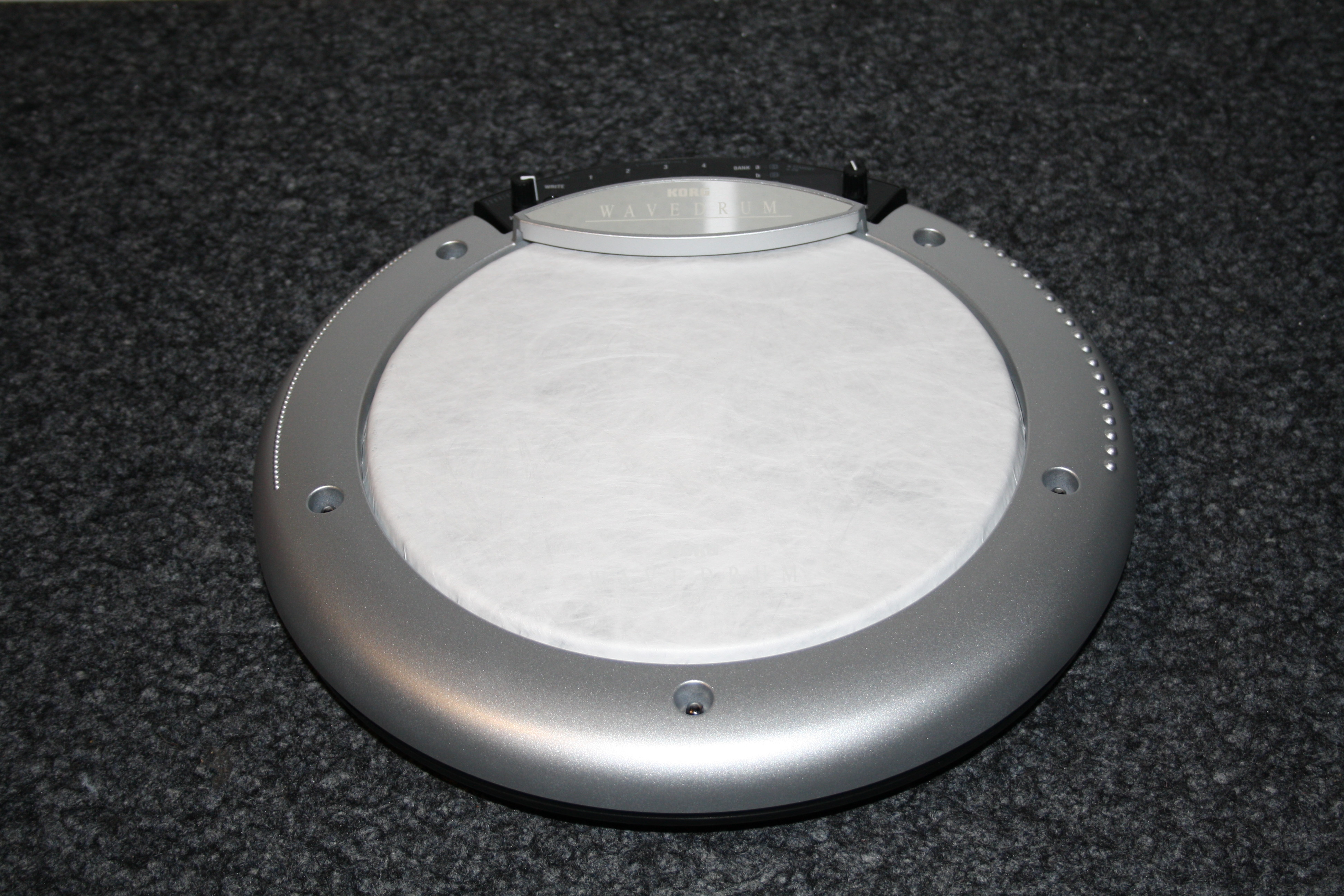 Korg Wavedrum WD-X Dynamic Percussio Synthesizer